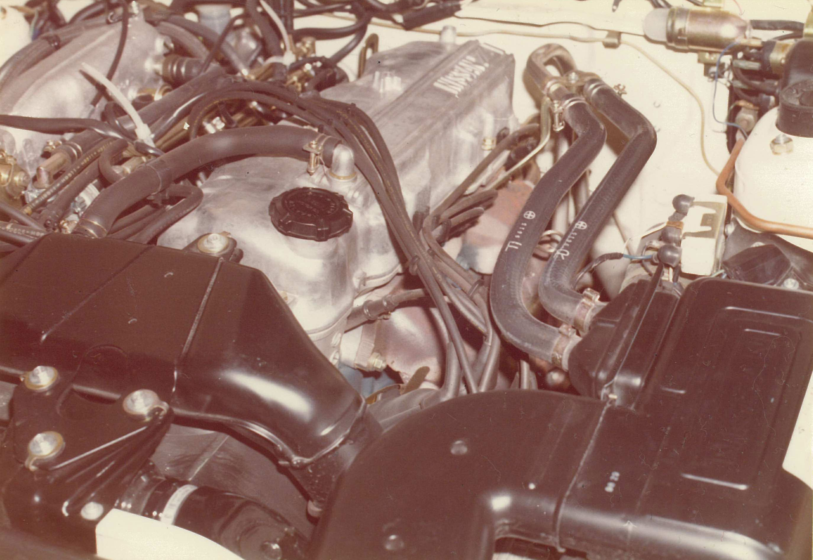 It is My Car which it photographed in Osaka.